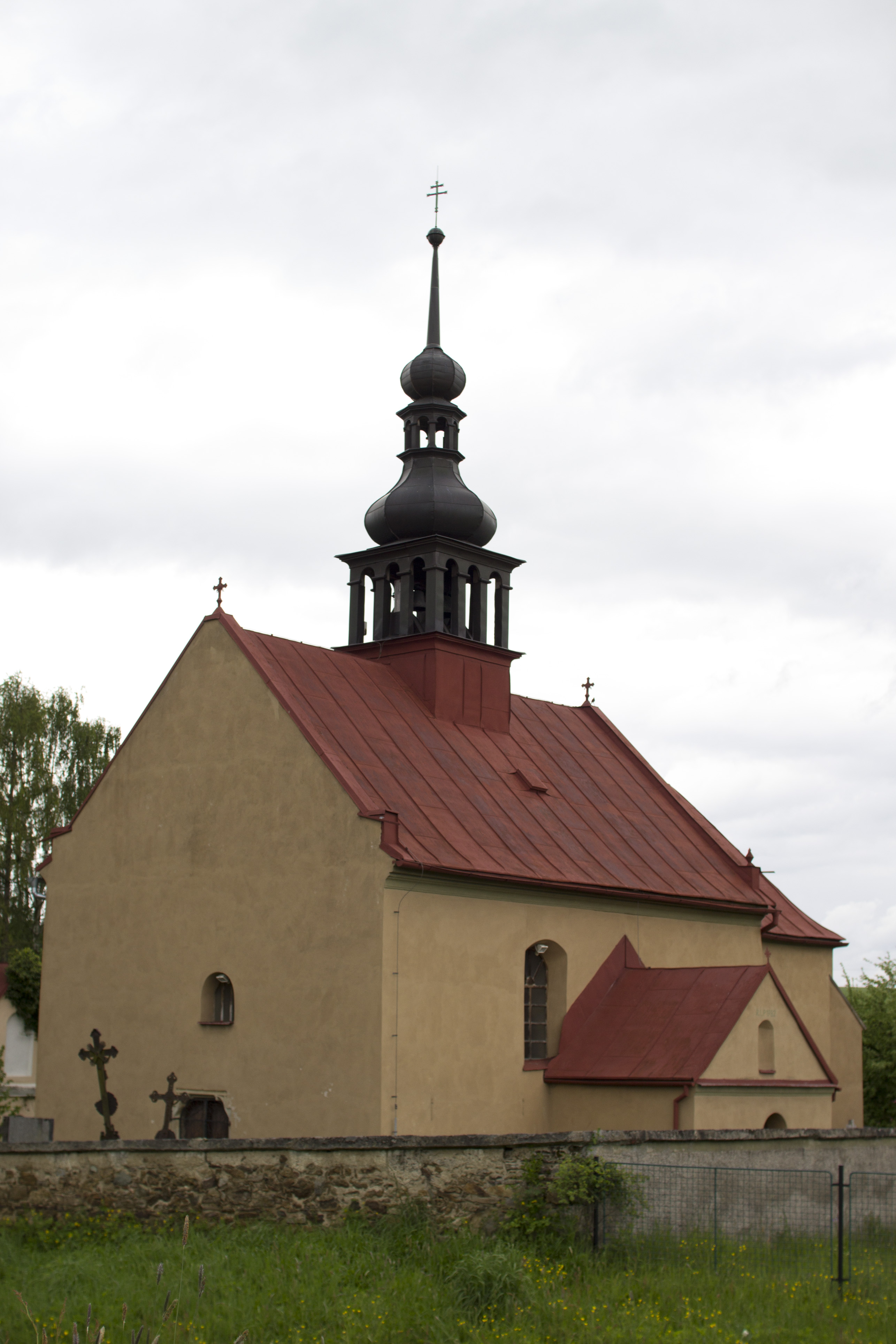 Dlouhá Ves, Havlíčkův Brod Distrct, Vysočina Region, Czech Republic